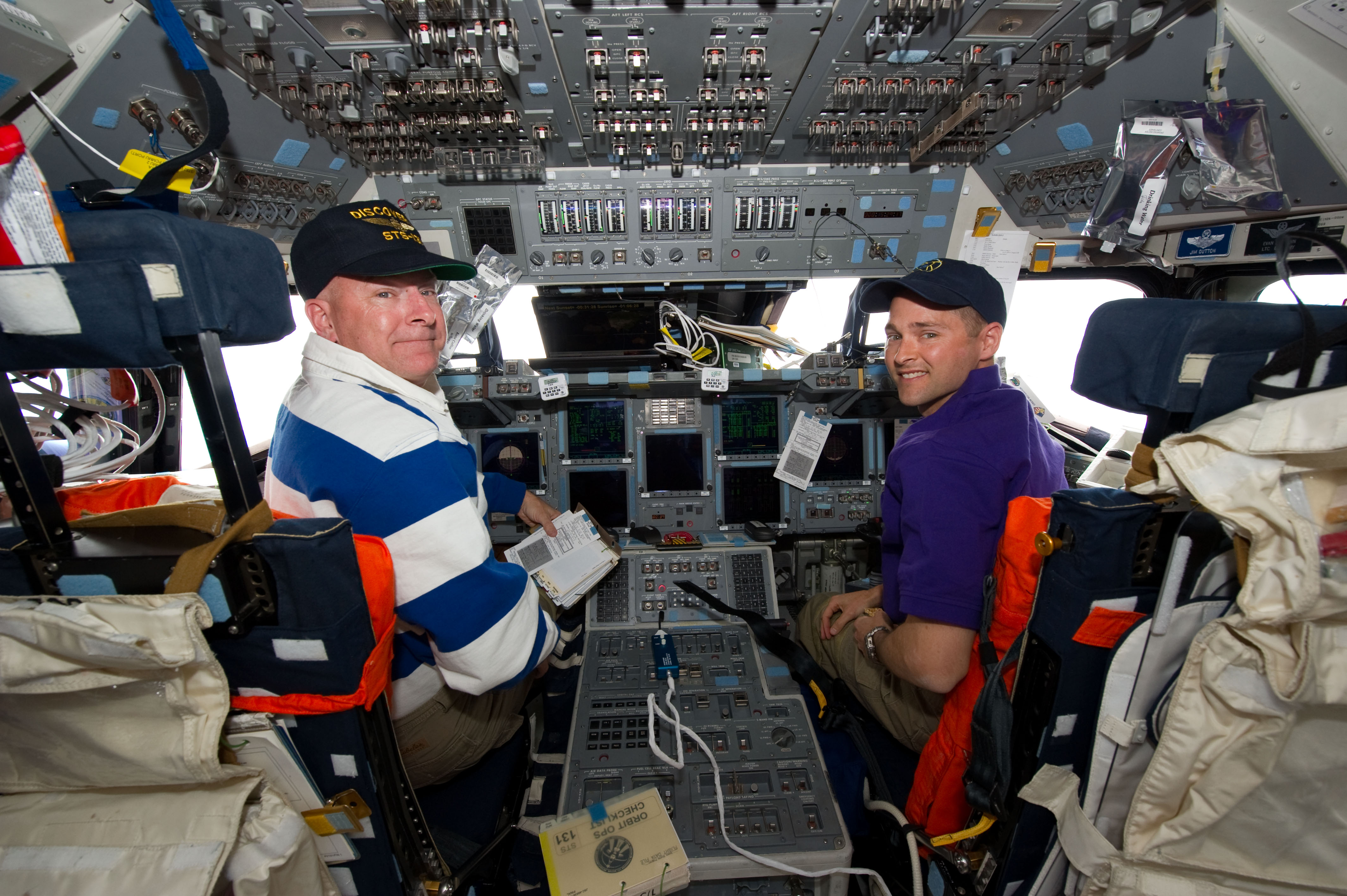 NASA astronauts Alan Poindexter (left), STS-131 commander; and James P. Dutton Jr., pilot, are pictured on the forward flight deck of space shuttle Discovery during flight day two activities.